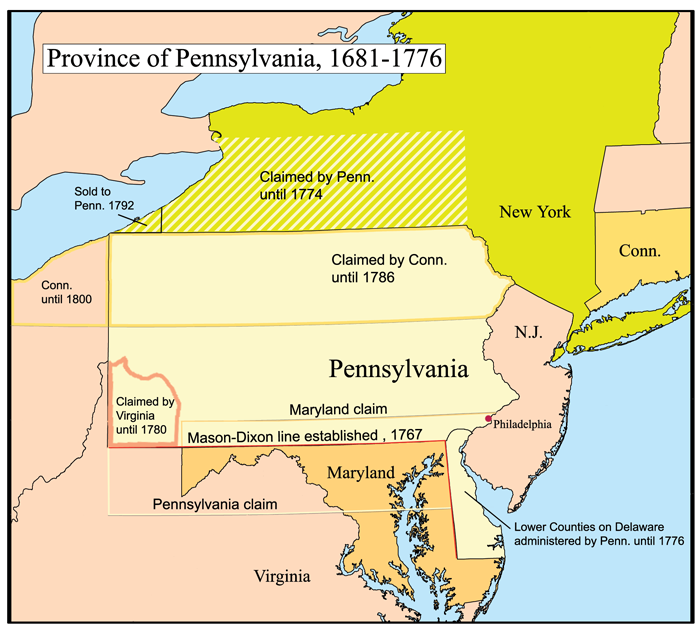 This is a map of the Province of Pennsylvania that I made. Boundary disputes between colonies not involving Pennsylvania are not shown.